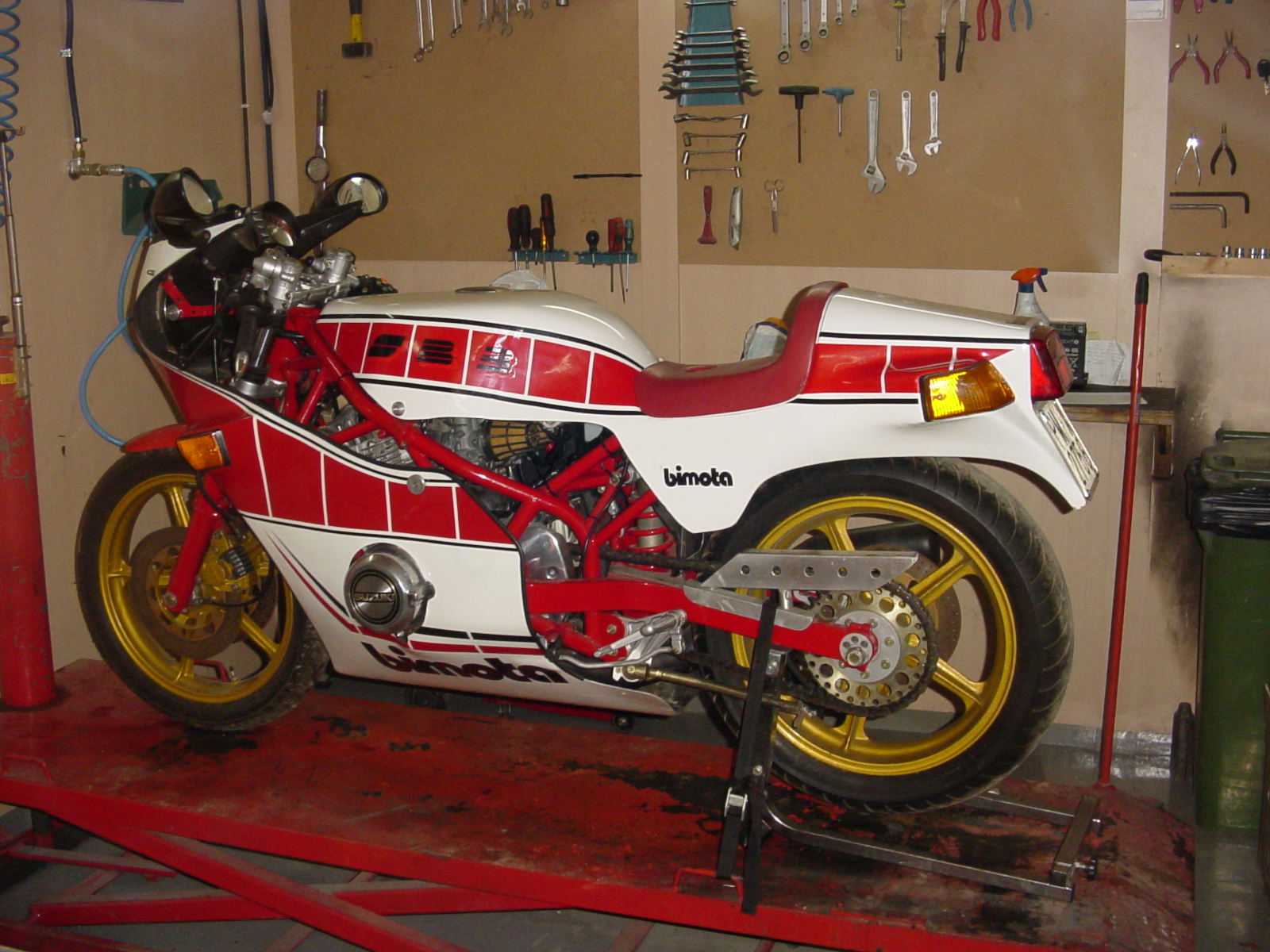 Bimota SB3